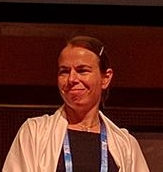 Derivative file (cropped from SCAR_2016_Wikibomb_Committee_Presentation.jpg)showing Australian microbiologist Jan Strugnell